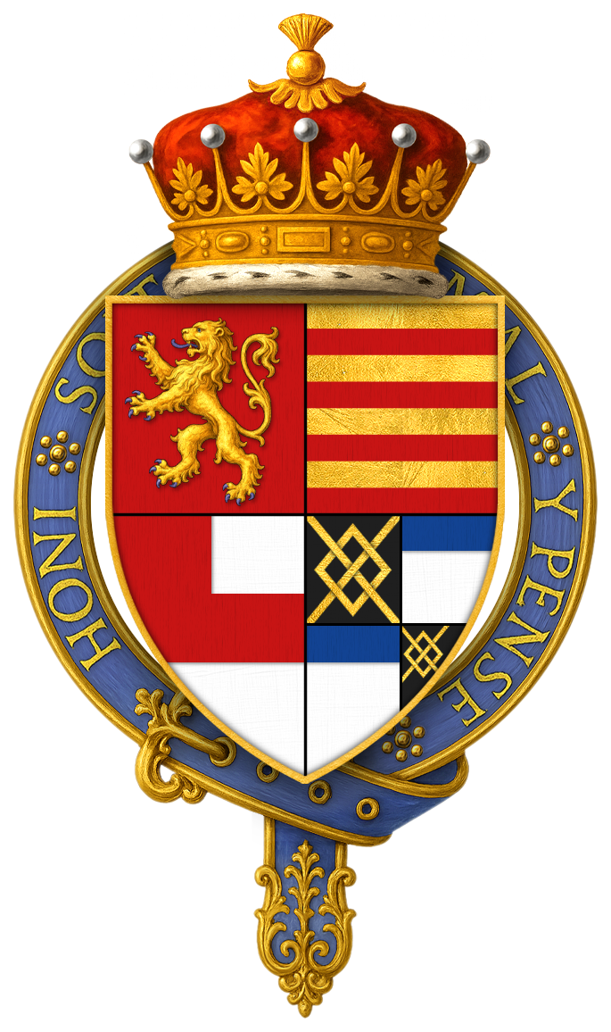 Coat of arms of Sir Henry FitzAlan, 19th Earl of Arundel, KG See Arundel's stall plate within St. George's Chapel. The plate is currently viewable online at the Royal Collection Trust website.